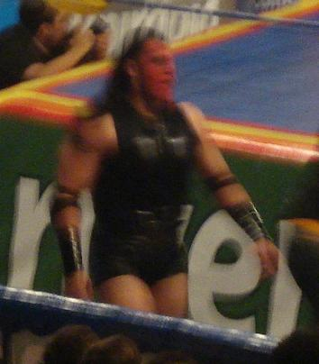 Image of Mexican Luchador / professional wrestler Chessman during the 2009 Guerra de Titanes show. Cropped from original